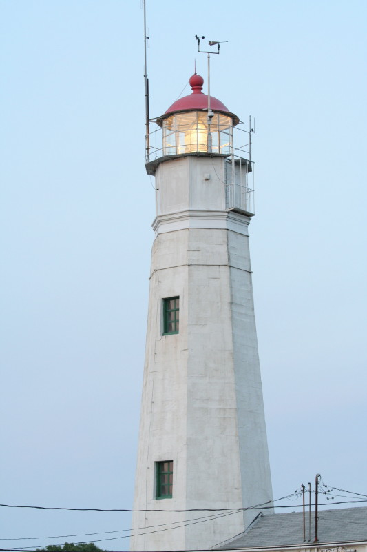 Eatons Neck Lighthouse at USCG station Eatons Neck